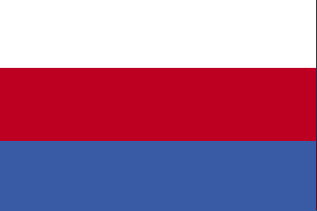 Flag with three horizontal stripes: white-red-blue